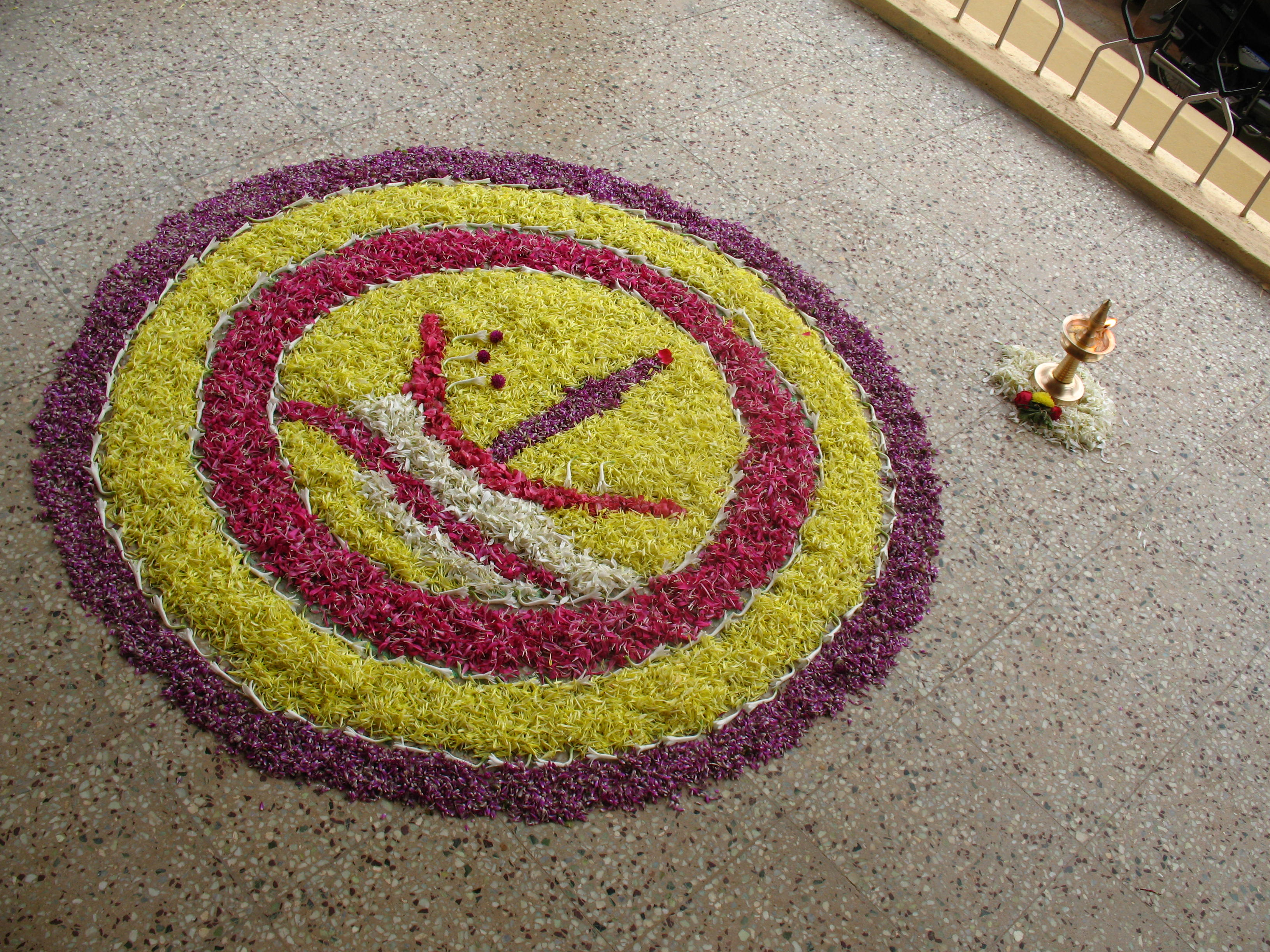 Happy Onam all Wikipedians